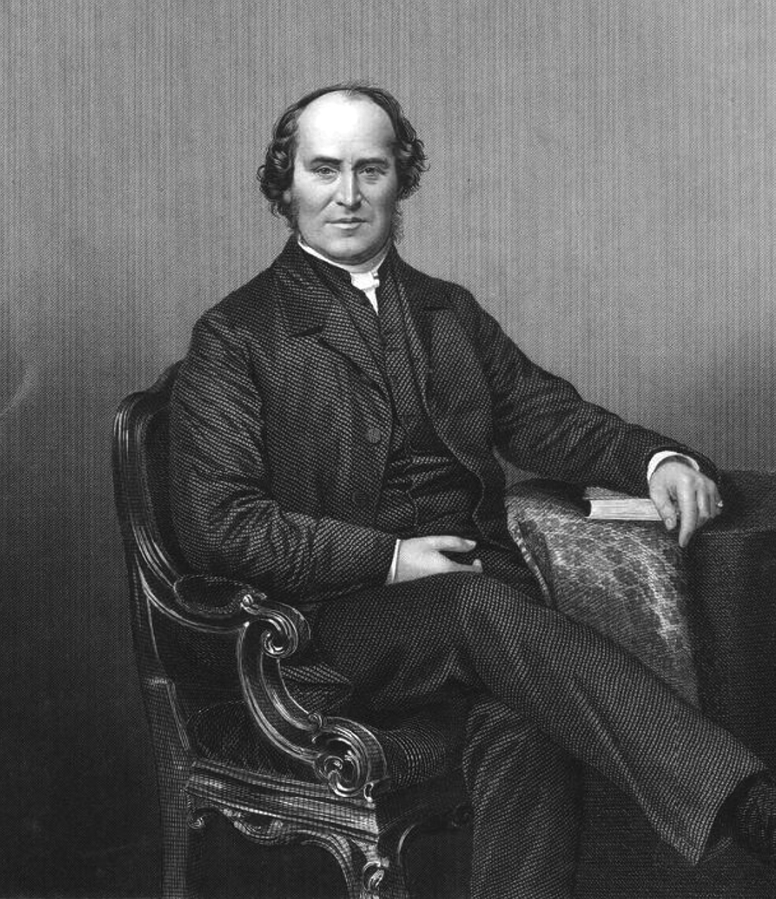 The Very. Rev. William Champneys (1807–1875), rector of St Mary Whitechapel and Dean of Lichfield. Engraving by Daniel John Pound, after a photograph by John Jabez Edwin Mayall